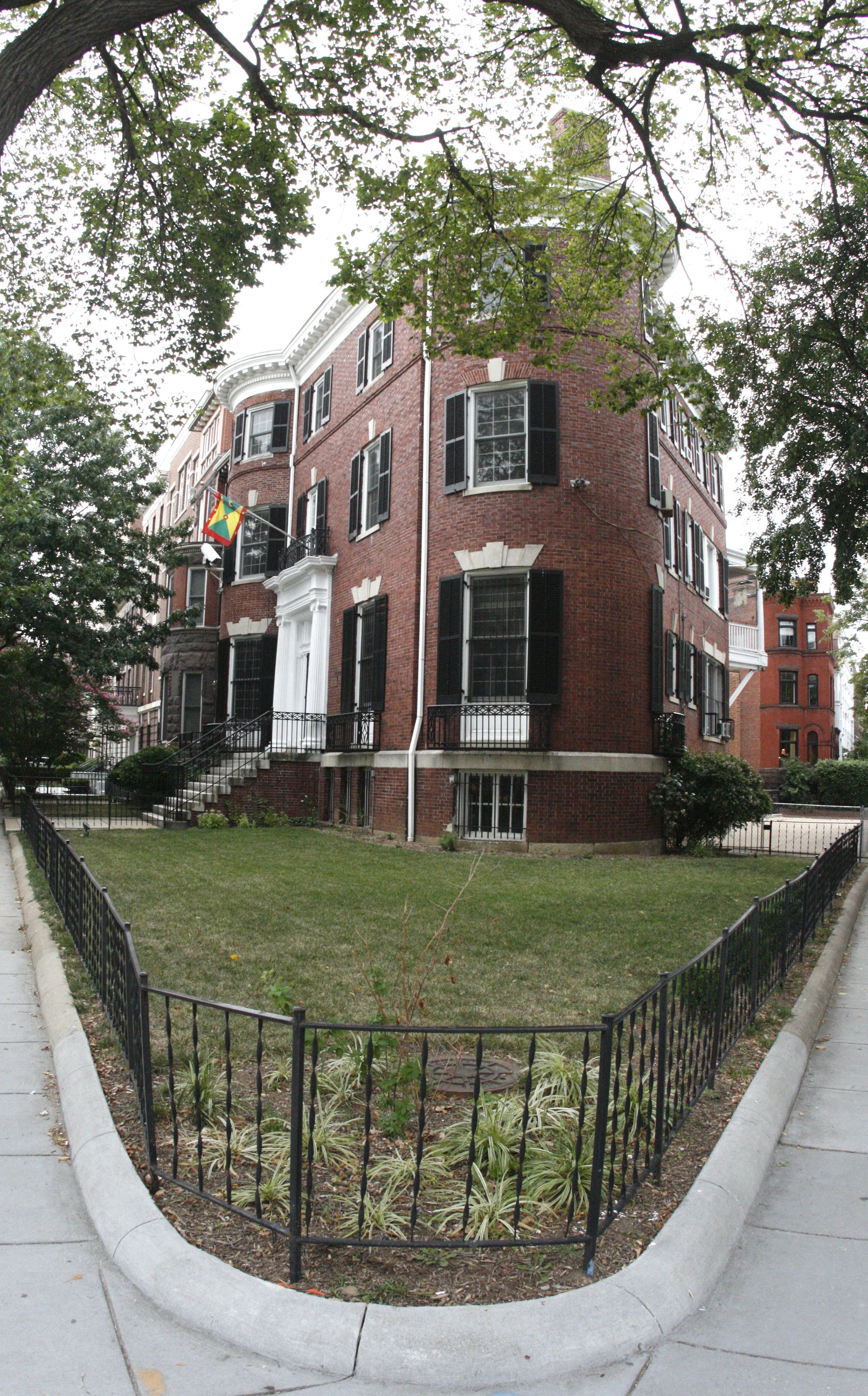 Embassy of Grenada in Washington, D.C.